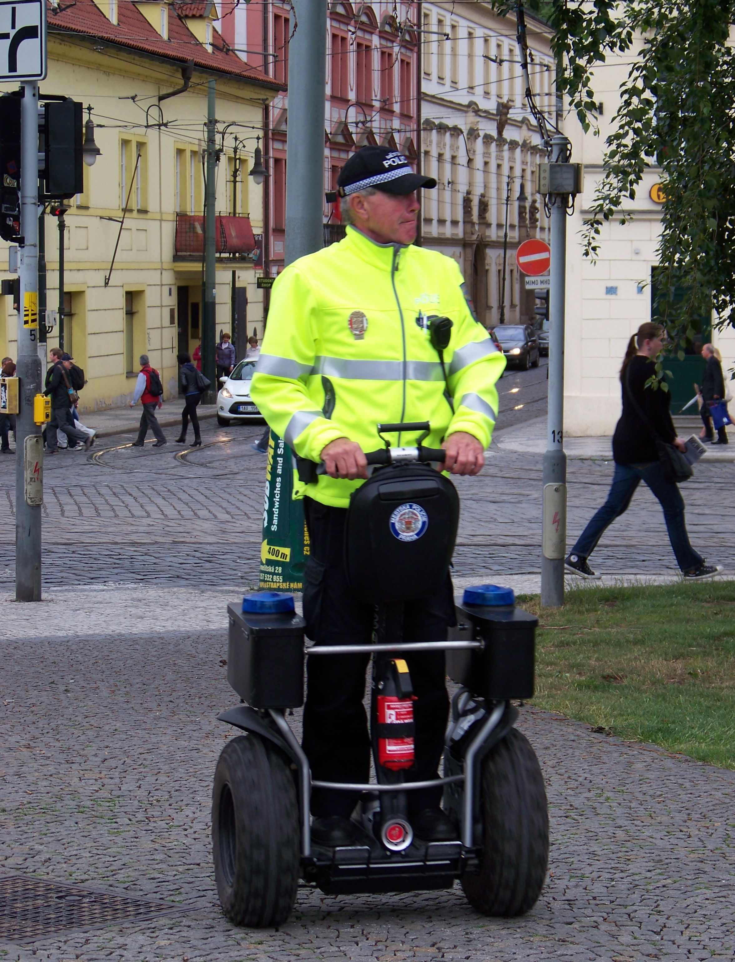 Prague-Malá Strana, the Czech Republic. Klárov, a municipal police officer on the Segway.